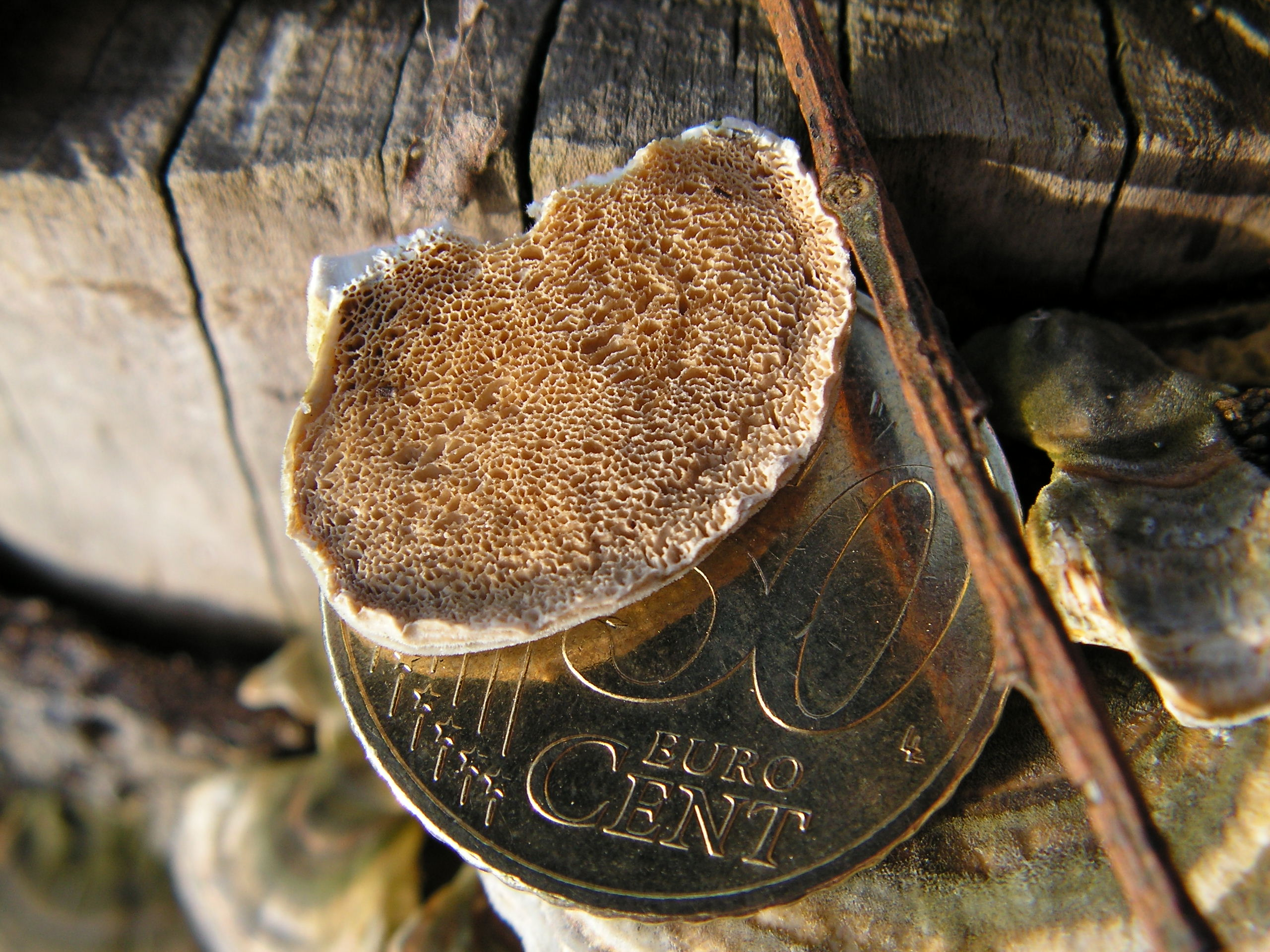 Trametes versicolor (underside of older specimen showing pores). Found on a (deciduous tree) stump in The Netherlands, April 2006. A 50 Eurocent coin is for scale.